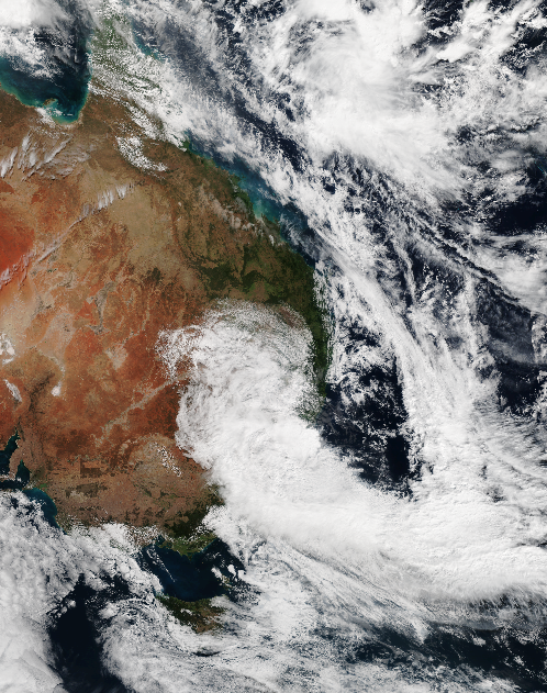 True color imagery from the Suomi NPP satellite's Visible Infrared Imaging Radiometer Suite (VIIRS) instrument 21 April 2015